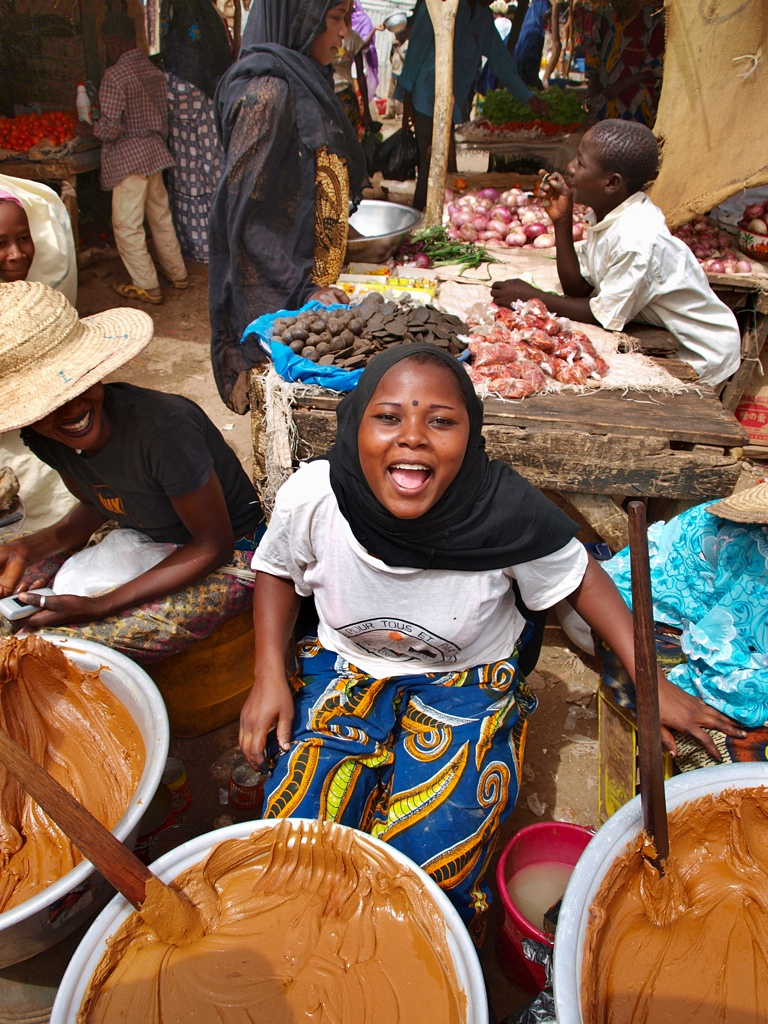 This young lady demanded being photographed and I promptly complied to her request. Taken at the town market in Dosso, Niger. From my website at